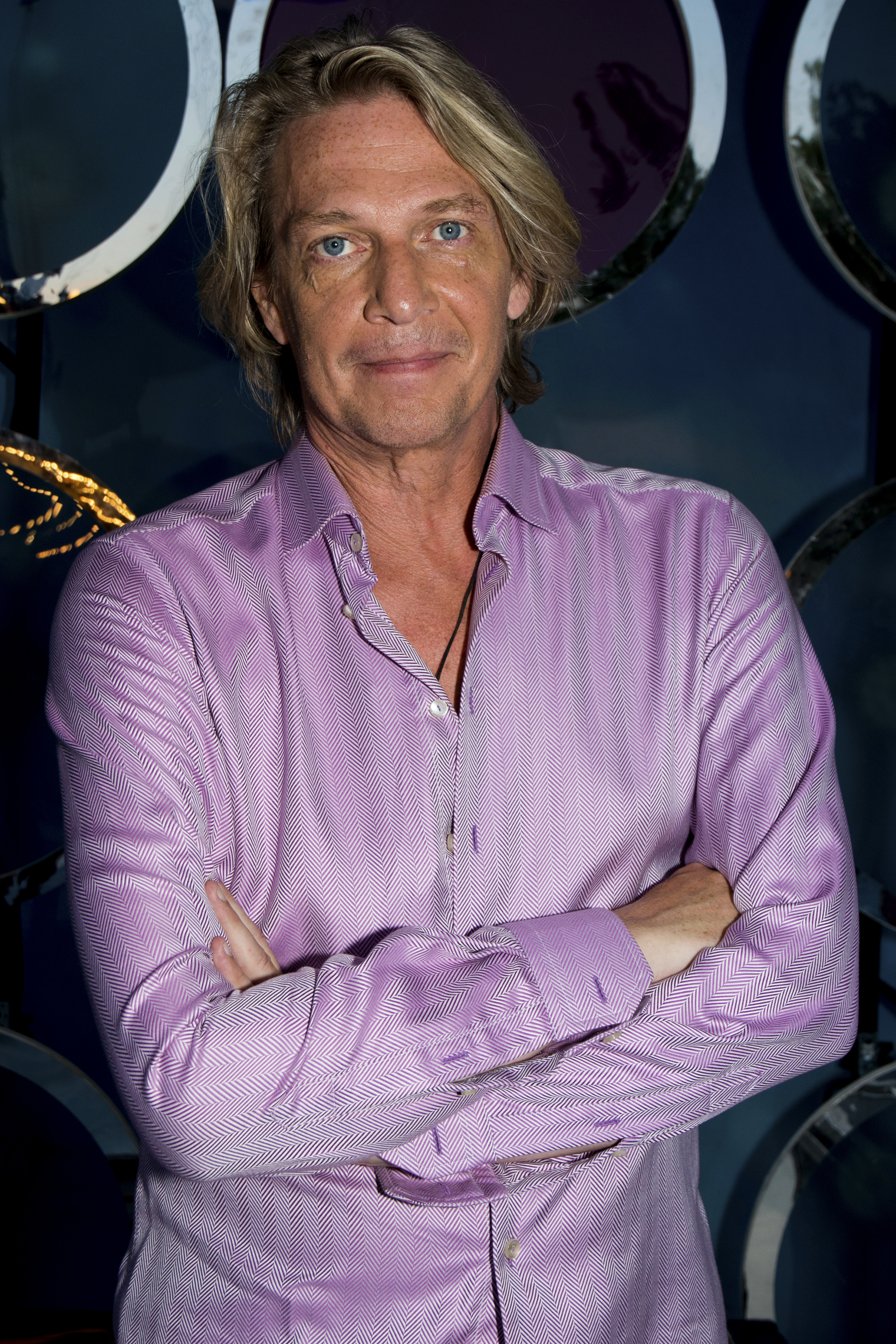 Tommy Nilsson visting the show Sommarkrysset 2013 at Gröna Lund, Stockholm